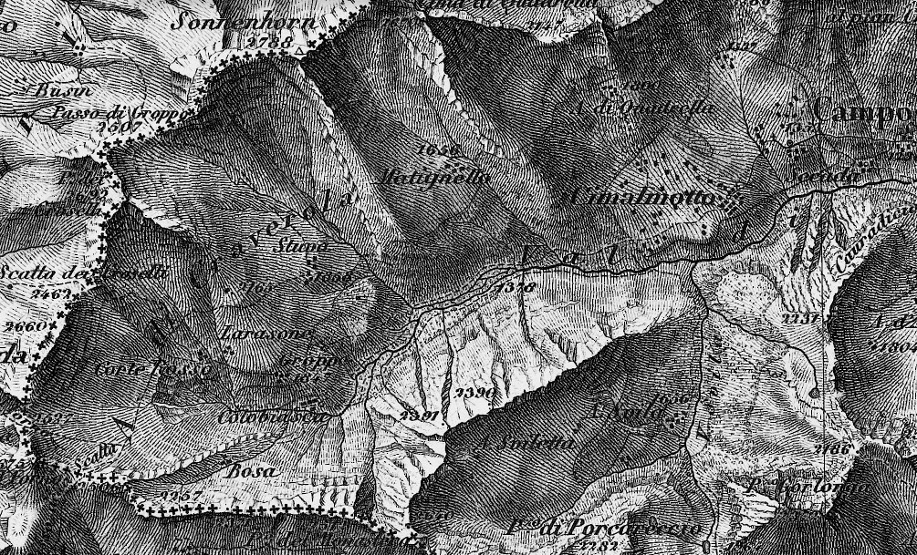 Valle Cravariola (I), marked as Swiss, on Dufour map, 1875.